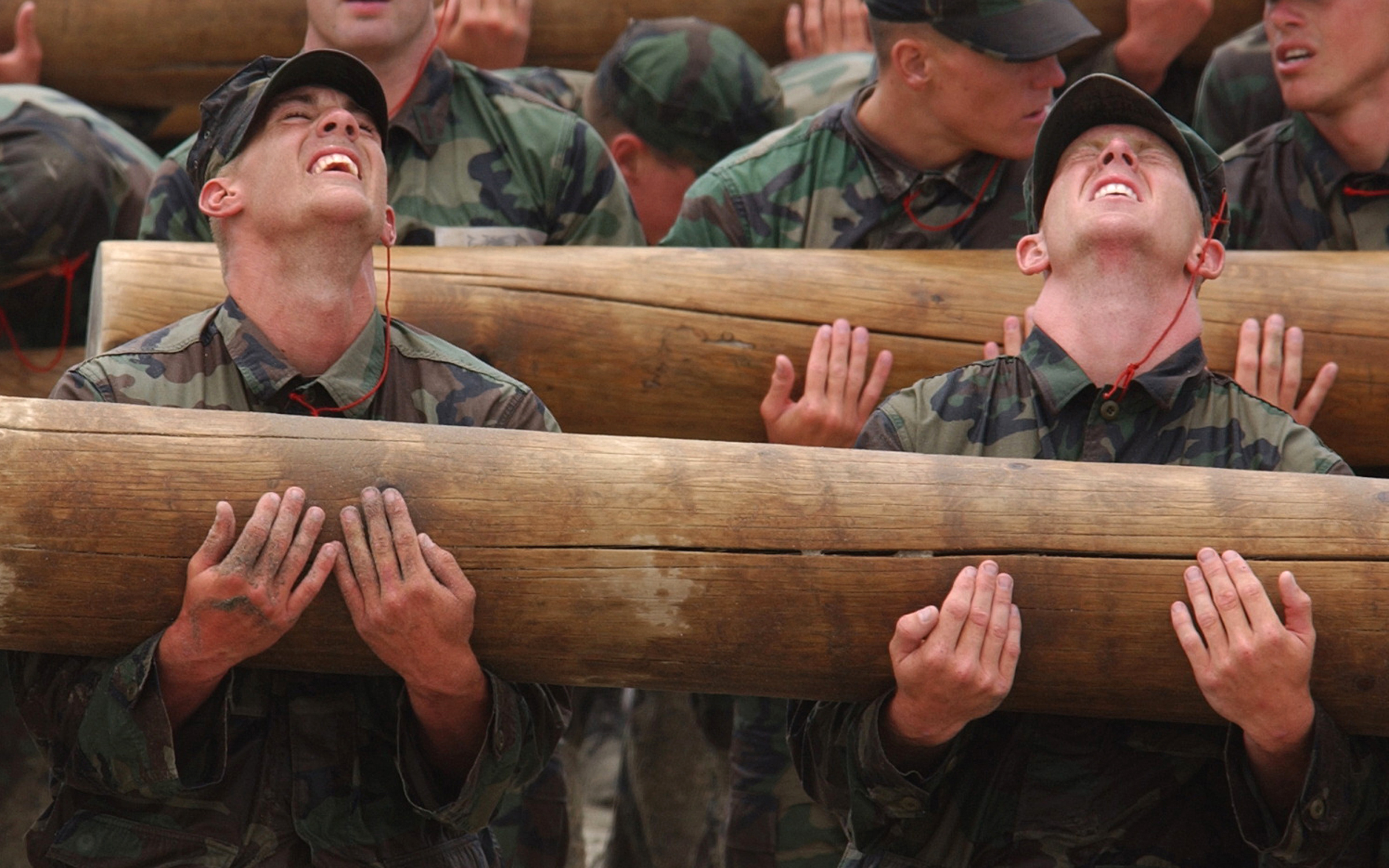 CORONADO, Calif. (June 22, 2003) - Basic Underwater Demolition/SEAL (BUD/S) students participate in Log PT (physical training) during Hell Week. Log PT is a demonstration not only of physical strength and endurance, but the importance of teamwork. The intense physical and mental conditioning it takes to become a SEAL begins at BUD/S training. During this six-month mind and body obstacle course, recruits are pushed to their physical and mental limits. Further development of the core values, Honor, Courage, Commitment and Integrity, is an essential component of SEAL training and one that is weaved throughout a SEAL’s career. First phase is the basic conditioning phase and is eight weeks in length. Physical training involves running, swimming, and calisthenics, all of which become increasingly difficult as the weeks progress. The fourth week of training, “Hell Week,” is days of continuous training with very little sleep. This week is designed to push students to their maximum capability both physically and mentally. The remaining weeks are spent in hydrographic reconnaissance and basic maritime training. U.S. Navy photo by Photographer's Mate 2nd Class Eric S. Logsdon (RELEASED)